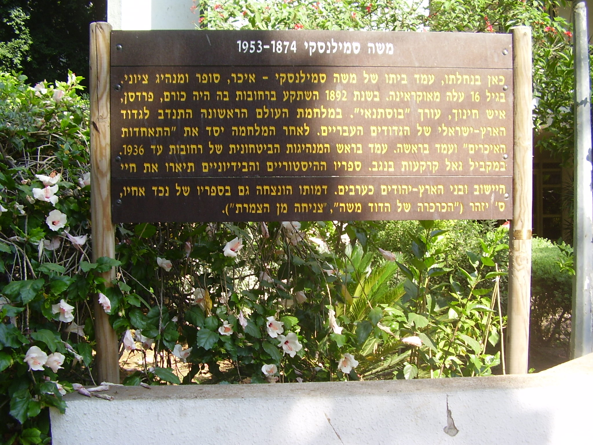 Moshe Smilansky House in Rehovot